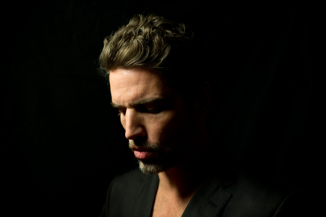 FRED METAYER / Musicien / Auteur / Compositeur / Interprète Photo Laurent Miretti